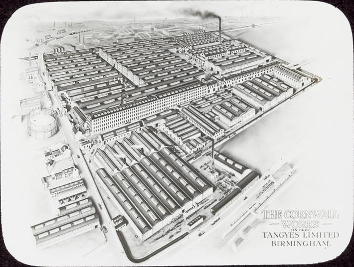 Aerial View of Tangyes Ltd's Cornwall Works, Birmingham, England circa 1909, from a glass lantern slide in the collection of Museum Victoria.